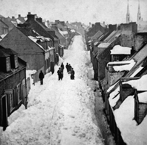 Winter view. Quebec City, Canada.